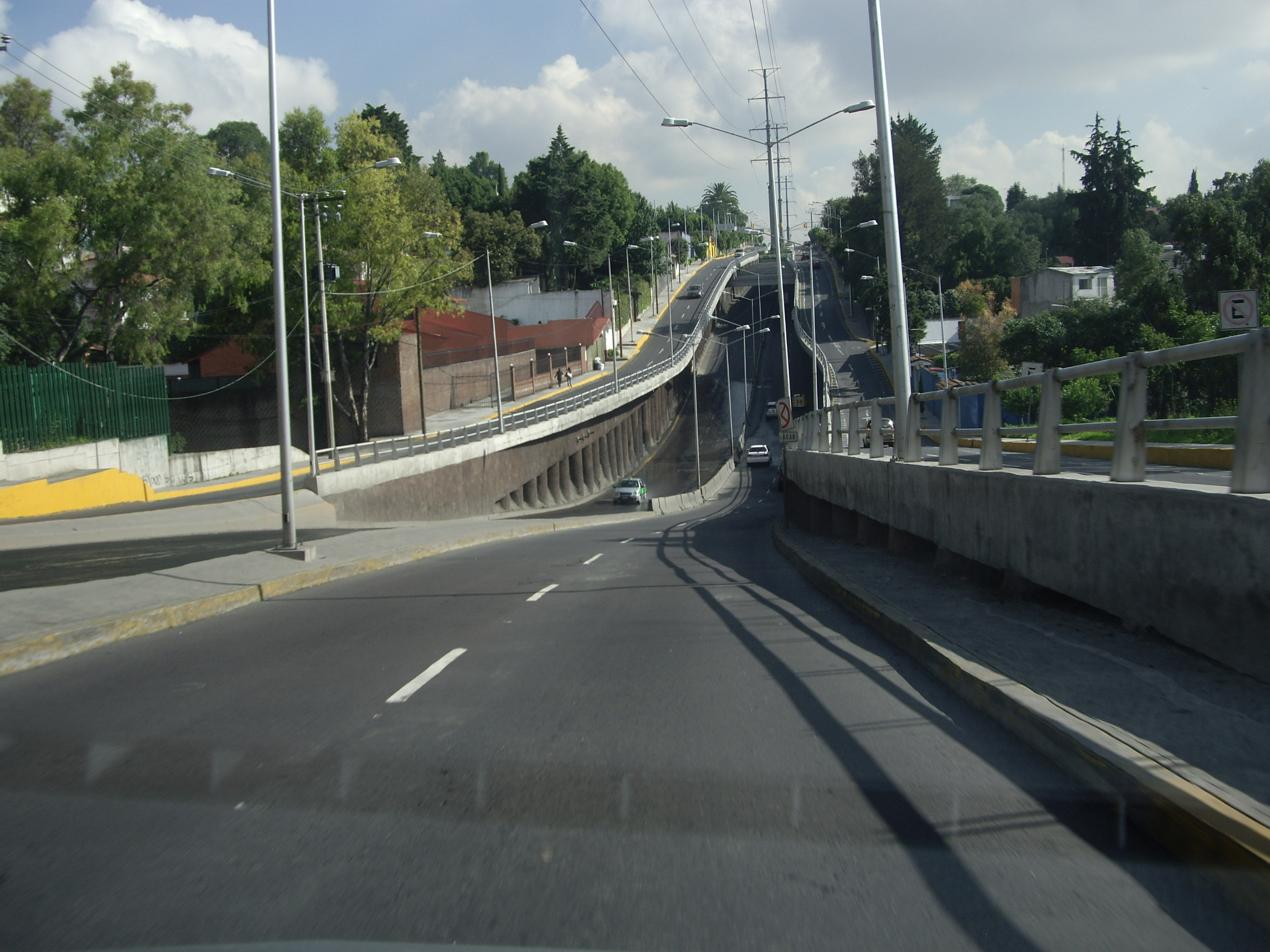 Entrance to the Alta Tensión tunnels in Mexico City (from Rómulo O'Farrill Sr. ave.)